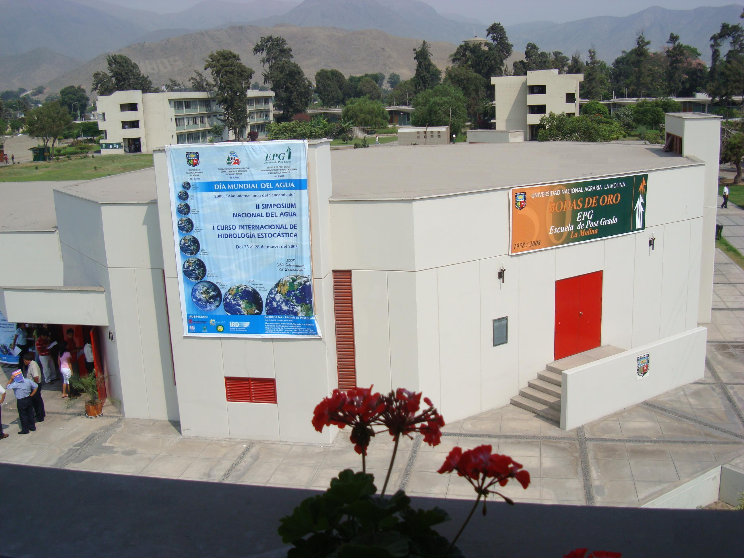 simposium